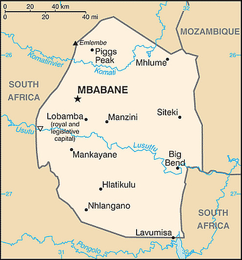 Eswatini map from the CIA World Factbook 2019